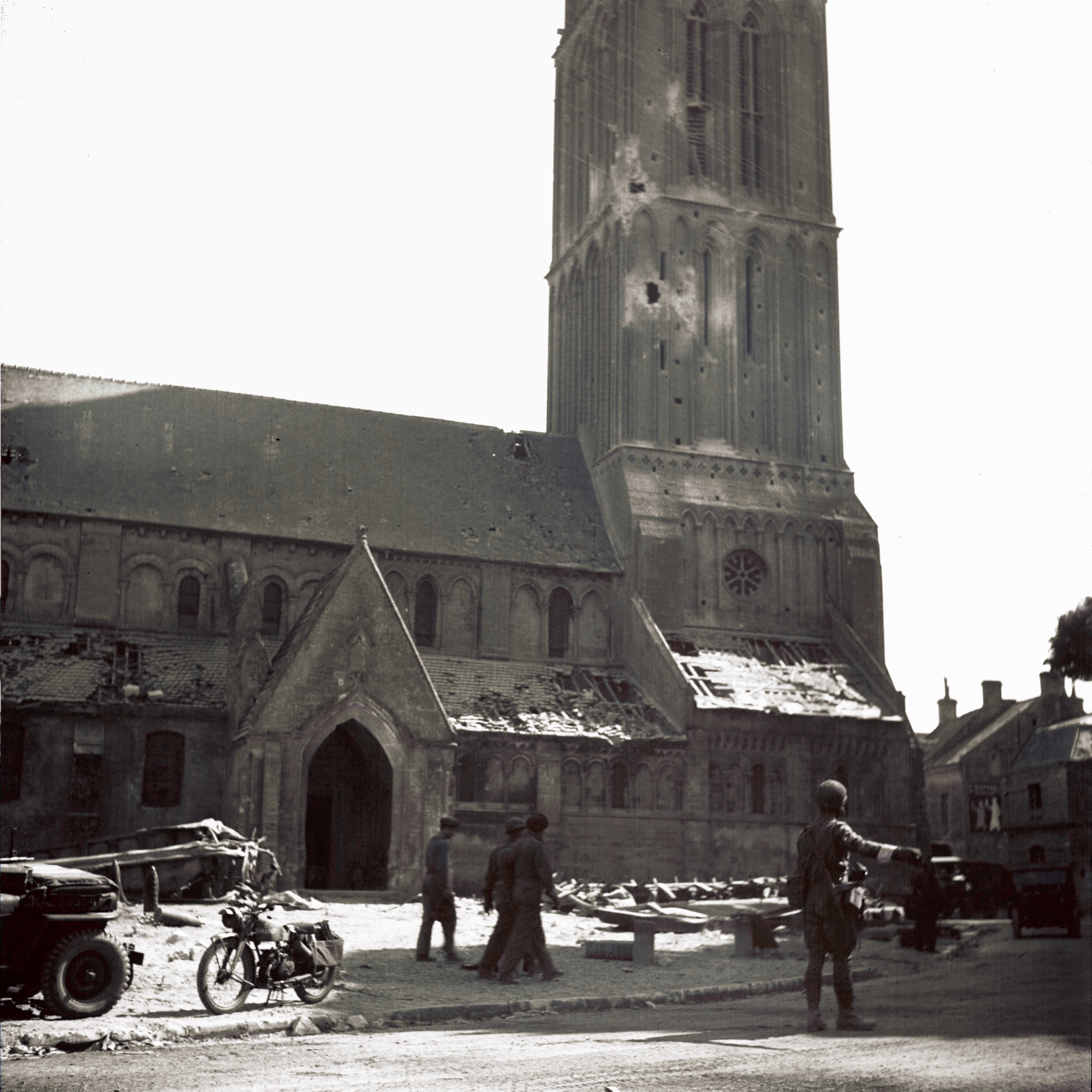 This Canadian soldier controls the traffic on the streets of Bernières-sur-Mer. The church has been hit by several grenade rounds. The steeple features two grenade impacts and the side roof was damaged. Juno Beach.